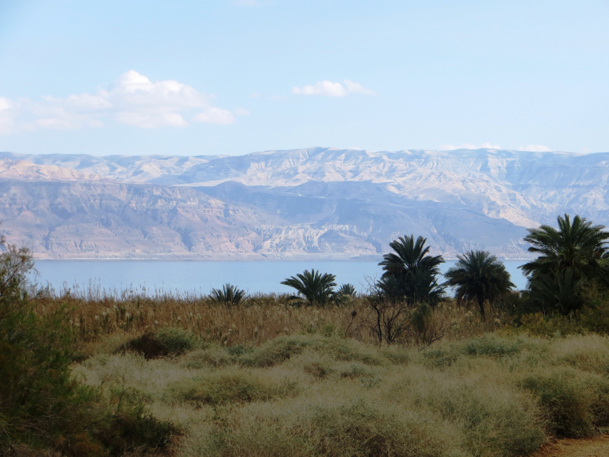 Ein Feshkha, Geography of Palestine